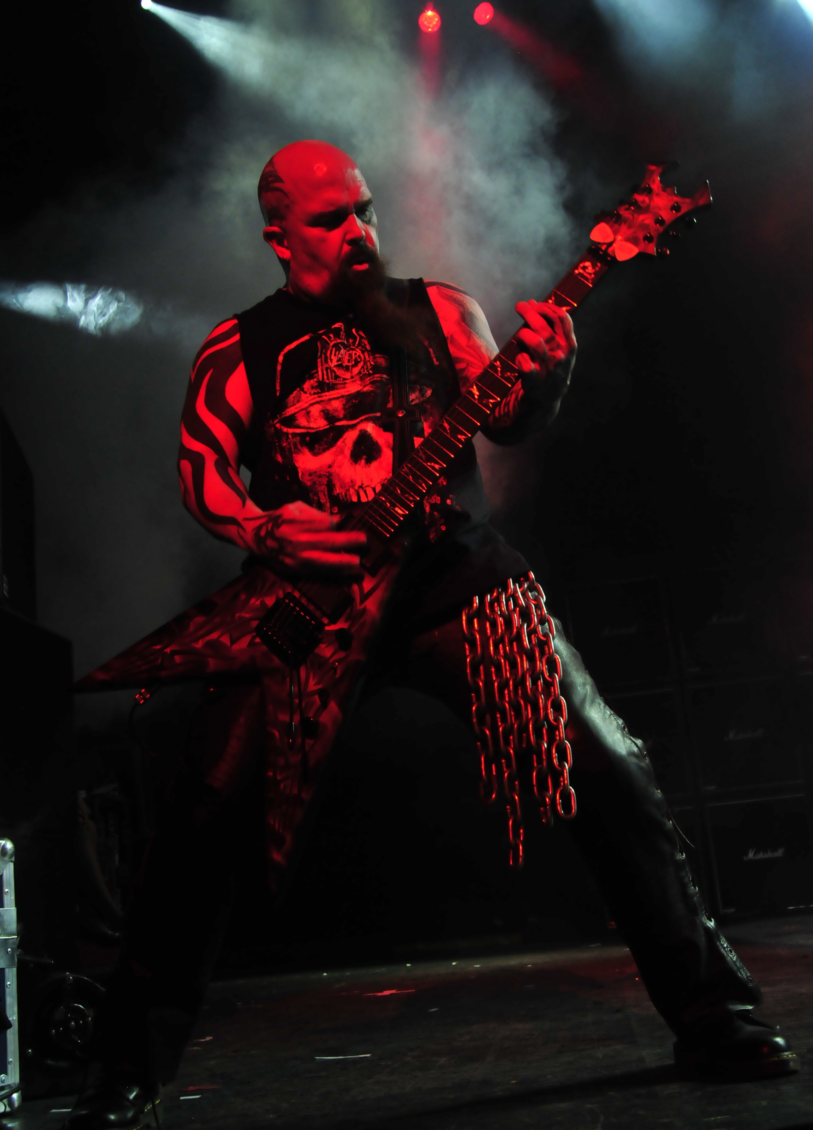 Kerry King (Slayer)at Mayhem Festival, Mansfield, MA